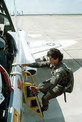 Image of then Lt. Olga E. Custido, the first Latina military fighter pilot, climbing down from the cockpit of a T-38. The image is from the Archives of the US Department of Defense and therefore Public Domain.